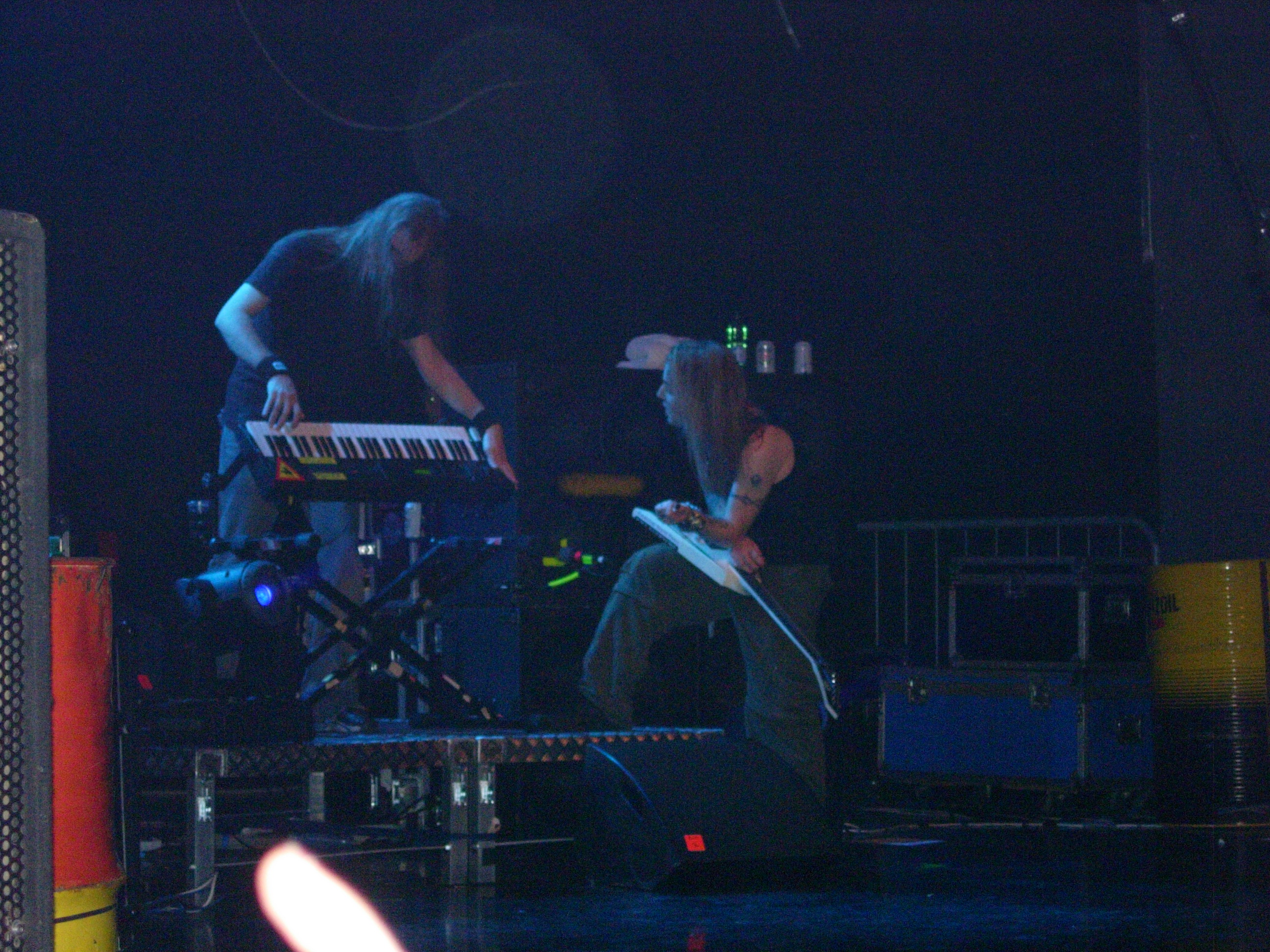 Children Of Bodom live in Milan 2006